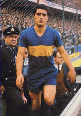 Angel Rojas, one of the greatest idols of Boca Juniors, jumping to the field in 1964.